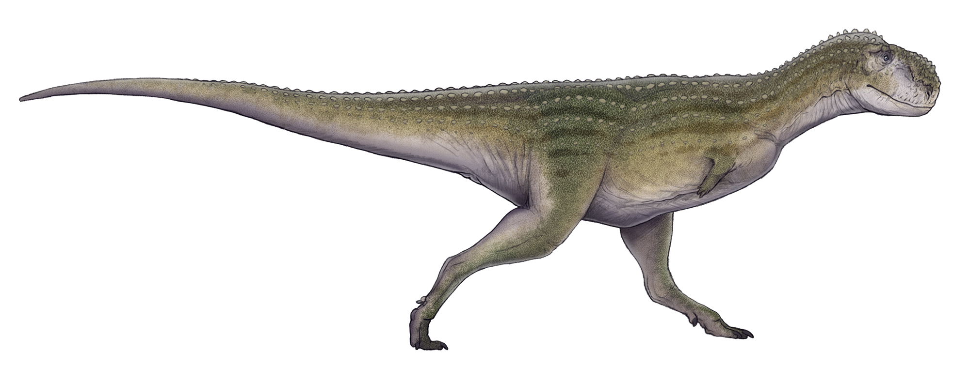 Life restoration of Chenanisaurus barbaricus